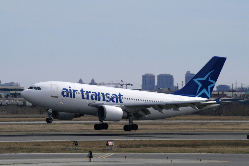 Air Transat A310-300 landing Runway 5, Toronto-Pearson. Taken from FedEx hill